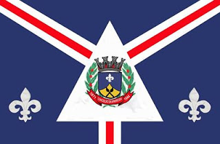 Flags of the city of Conceição da Aparecida, Minas Gerais, Brazil.